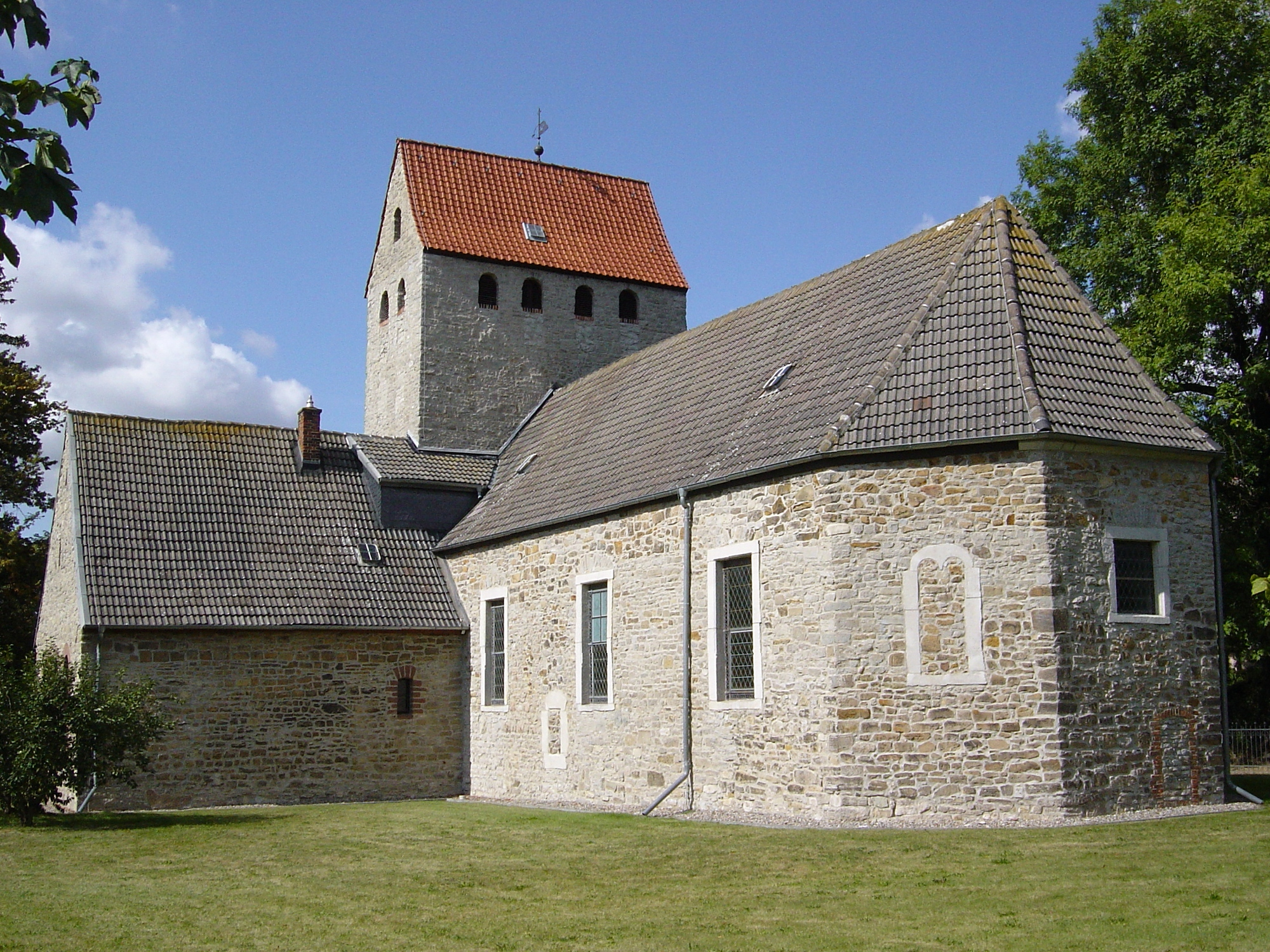 Protestant church in Hakenstedt, Germany